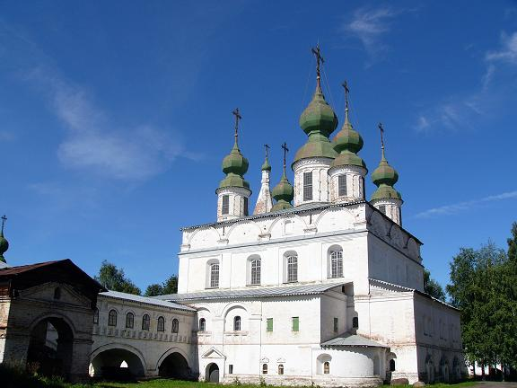 Veliky Ustyug. Mikhailo-Arkhangelsky Monastery. Mikhailo-Arkhangelsky Cathedral